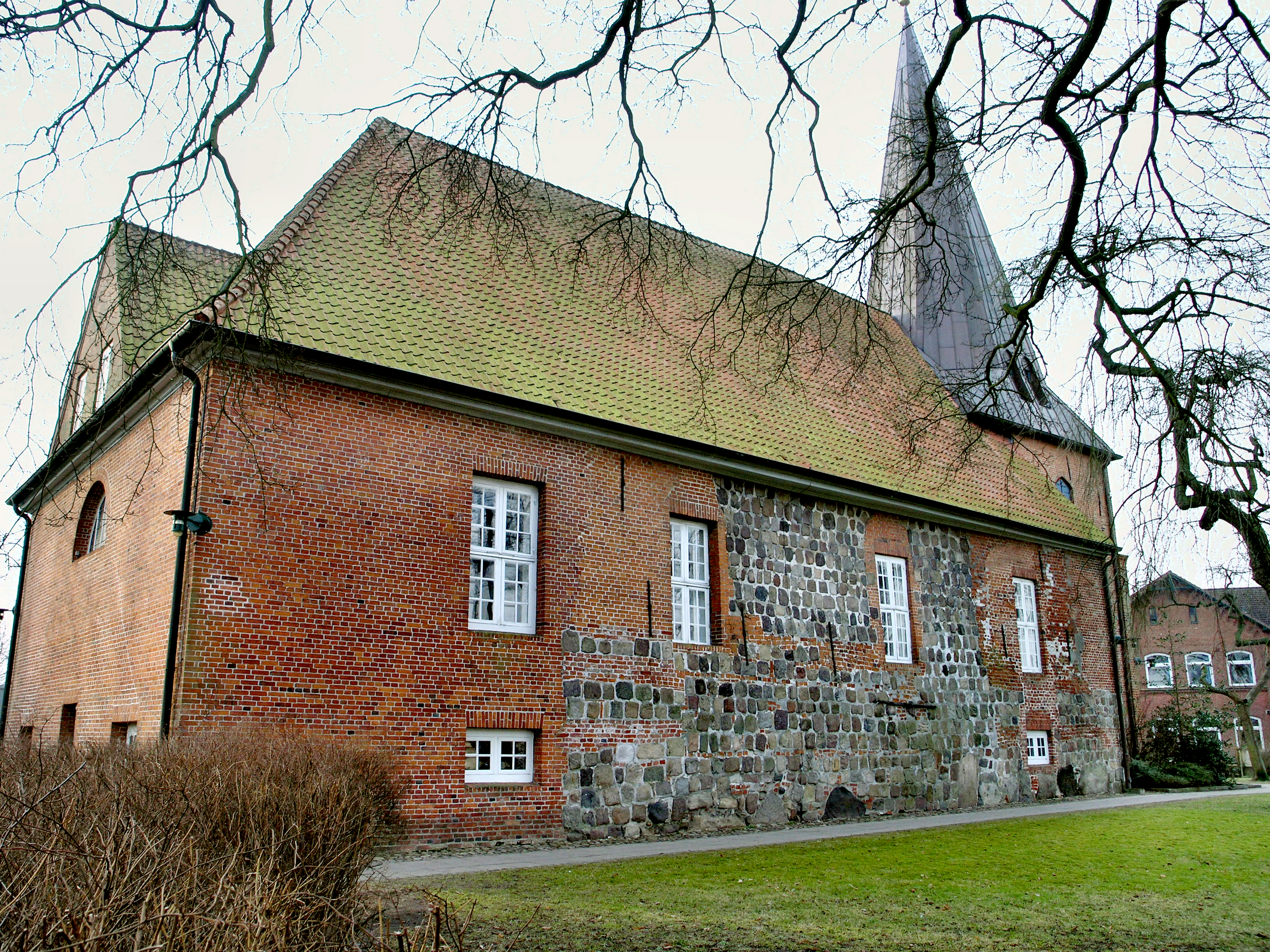 Church in Bargteheide built 1890